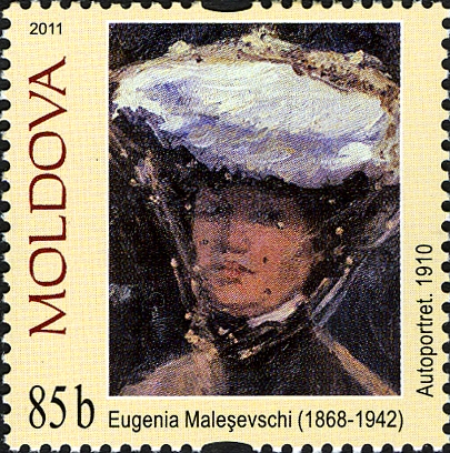 Stamps of Moldova